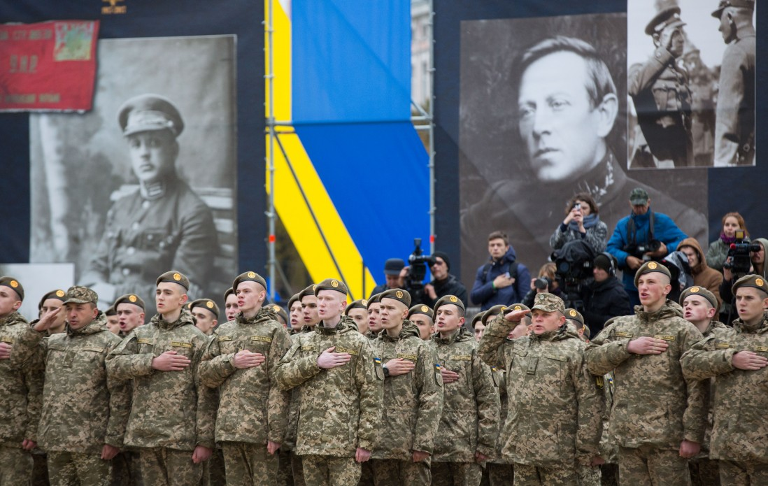 President Poroshenko takes part in the events on the Day of the Defender of Ukraine